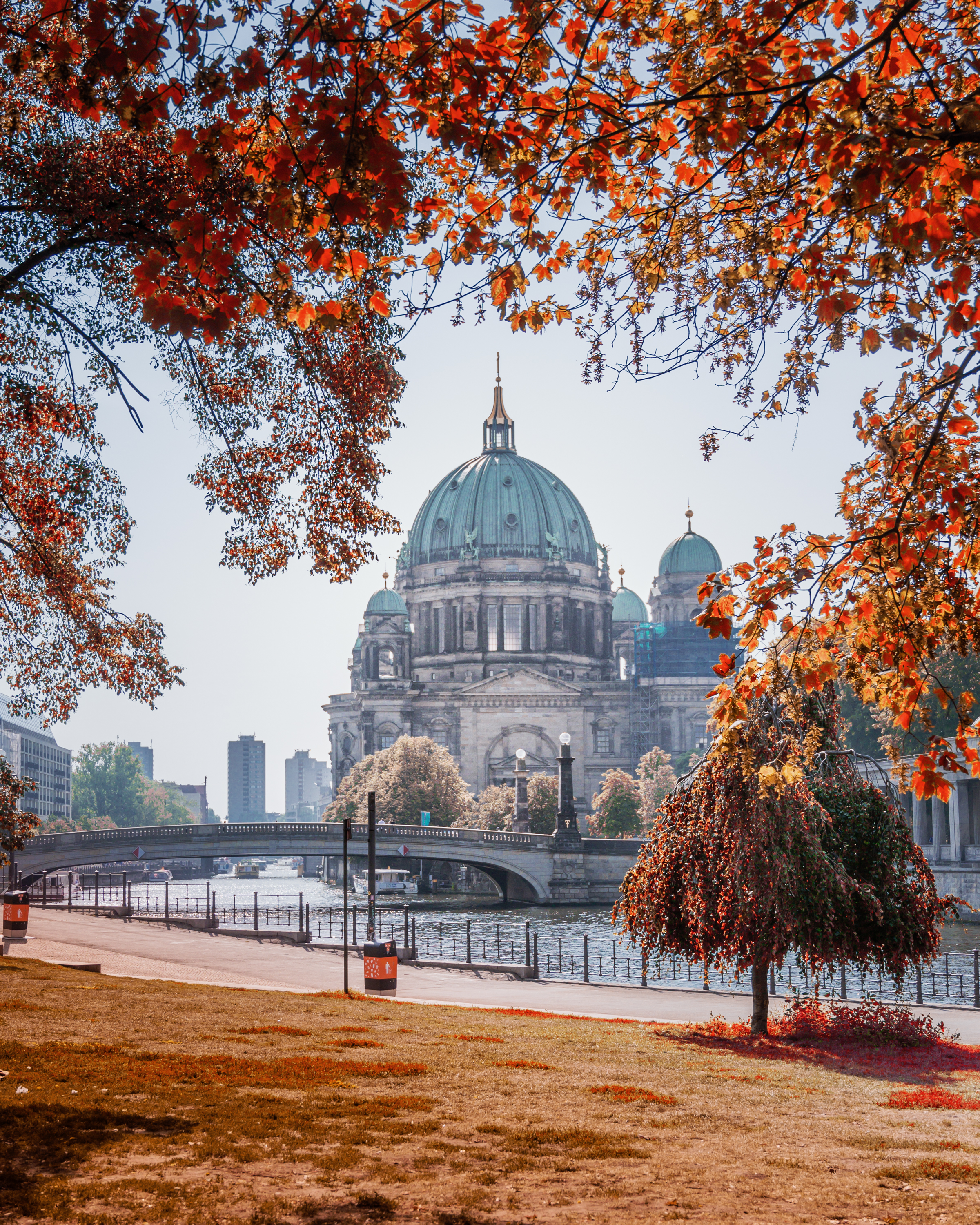 Berliner Dom, as seen from the James Simon Park